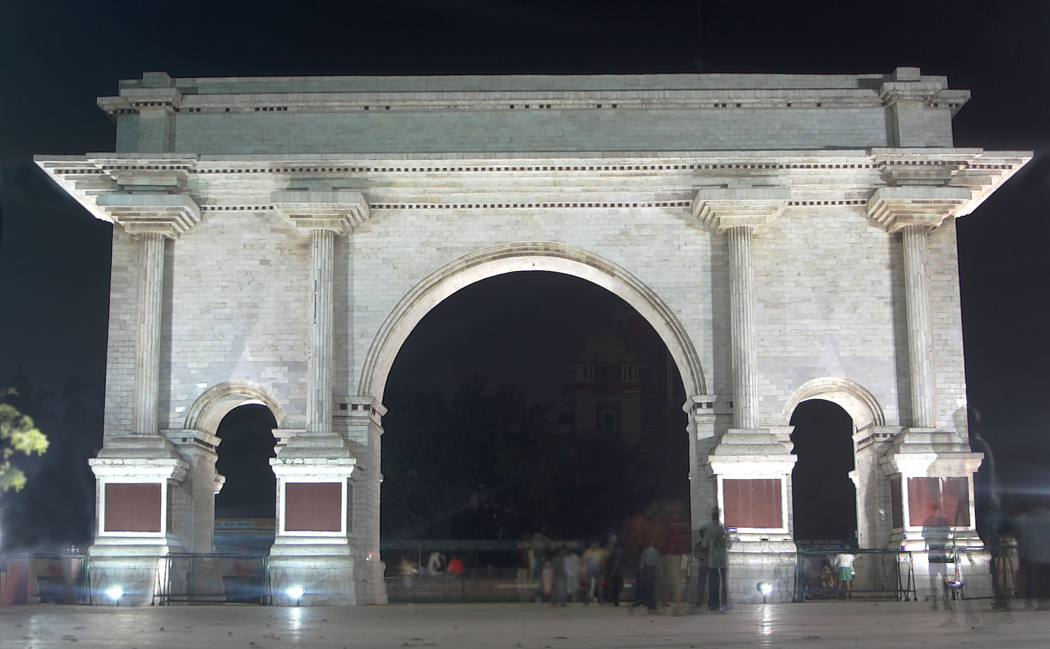 The gate to the enterance of the Anna Memorial memorial (known locally as Anna Samadhi) on Marina beach. Taken looking towards Madras University.